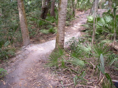 taken for this article